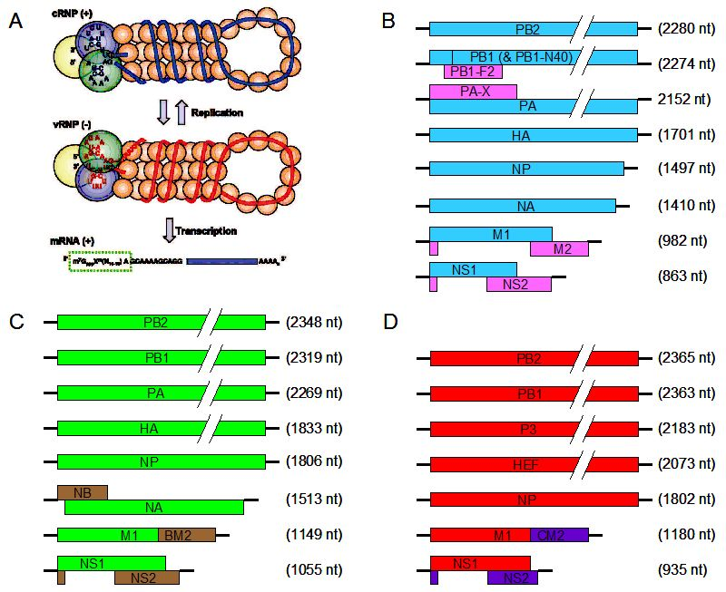 Genomes of influenza viruses. A) The ends of the negative strand influenza genomic RNA are complexed with the three polymerase proteins and the remaining sequence is encapsidated with nucleoprotein (vRNP (-)). The positive strand cRNP is similarly complexed. The mRNA is transcribed with a 5’ cap structure and poly-A tail (see main text for details). Figure used with permission from Resa-Infante et al., 2011. B) Schematic of the influenza A virus genome. The bold black lines represent the 3’ and 5’ untranslated regions. The blue and pink boxes represent the major protein coding regions. C) Schematic of the influenza B virus genome. The green and brown boxes represent the major protein coding regions. D) Schematic of the influenza C virus genome. The red and purple boxes represent the major protein coding regions. The protein coding regions are not to scale. Coding regions in a different reading frame are shown above or below each other, coding regions in the same frame are show as contiguous blocks.